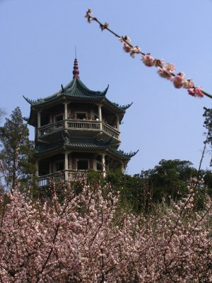 Meiyuan Garden in Wuxi China. It is one of the four biggest plum blossom gardens in China.